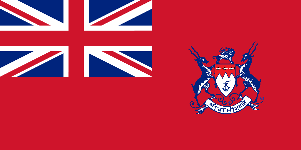 Civil ensign of Nawanagar State This work is in the public domain in India because its term of copyright has expired. The Indian Copyright Act applies in India, to works first published in India. According to The Indian Copyright Act, 1957 (Chapter V Section 25), Anonymous works, photographs, cinematographic works, sound recordings, government works, and works of corporate authorship or of international organizations enter the public domain 60 years after the date on which they were first published, counted from the beginning of the following calendar year (ie. as of 2018, works published prior to 1 January 1958 are considered public domain). Posthumous works (other than those above) enter the public domain after 60 years from publication date. Any other kind of work enters the public domain 60 years after the author's death. Text of laws, judicial opinions, and other government reports are free from copyright. Photographs created before 1958 are in the public domain 50 years after creation, as per the Copyright Act 1911. This file may not be in the public domain outside India. The creator and year of publication are essential information and must be provided. See Wikipedia:Public domain and Wikipedia:Copyrights for more details. This image shows a flag, a coat of arms, a seal or some other official insignia. The use of such symbols is restricted in many countries. These restrictions are independent of the copyright status.